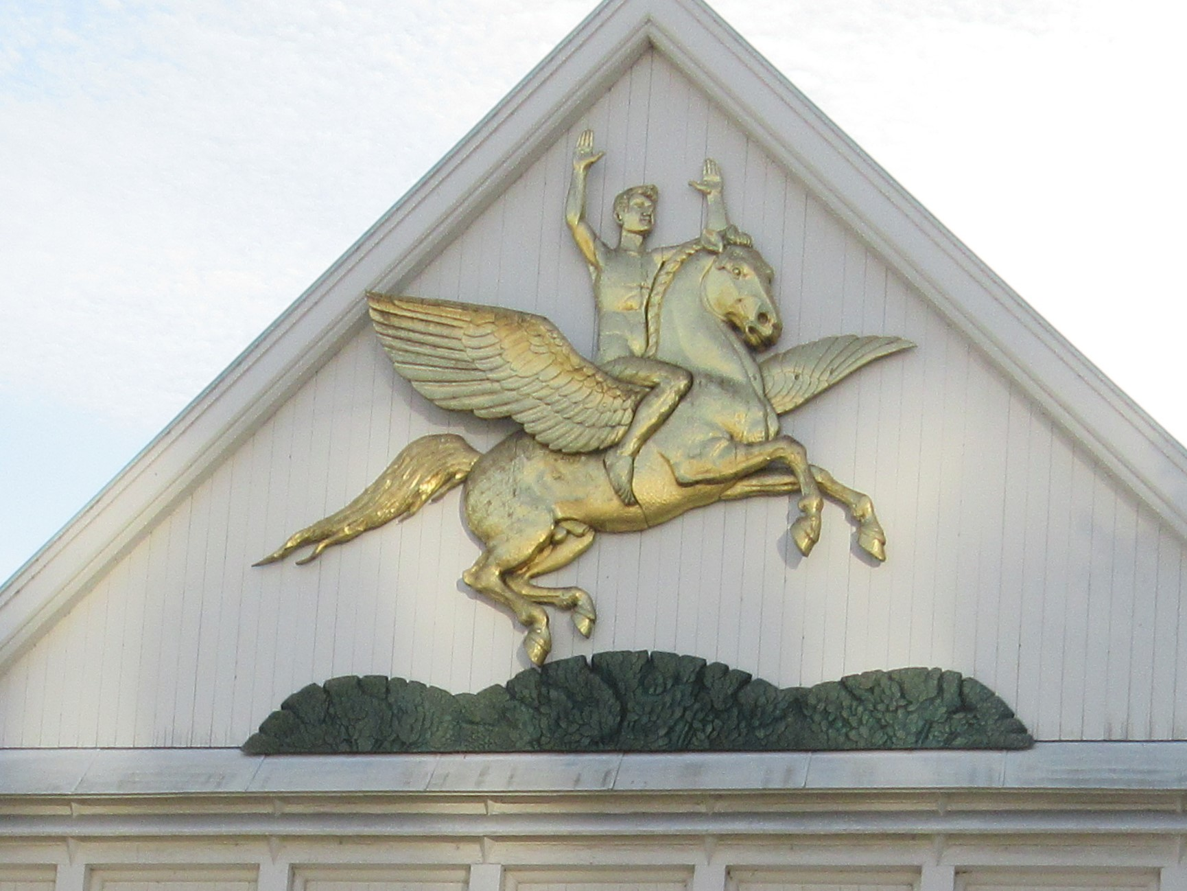 Detail of Den Frie Udstillingsbygning in Copenhagen, Denmark